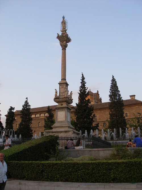 Hospital Real de Granada. Basado en la planta del hospital de Milán de Filarete. Granada, España. Jardines del Triunfo, presididos por la columna del Triunfo de la Inmaculada, de Alonso de Mena (Siglo XVII) The Royal Hospital of Granada was built after the plans of Filarete for the Hospital of Milan. Gradens of the Triunfo, and the column of the Triumph of the Inmaculate Virgin, by Alonso de Mena (17th century).